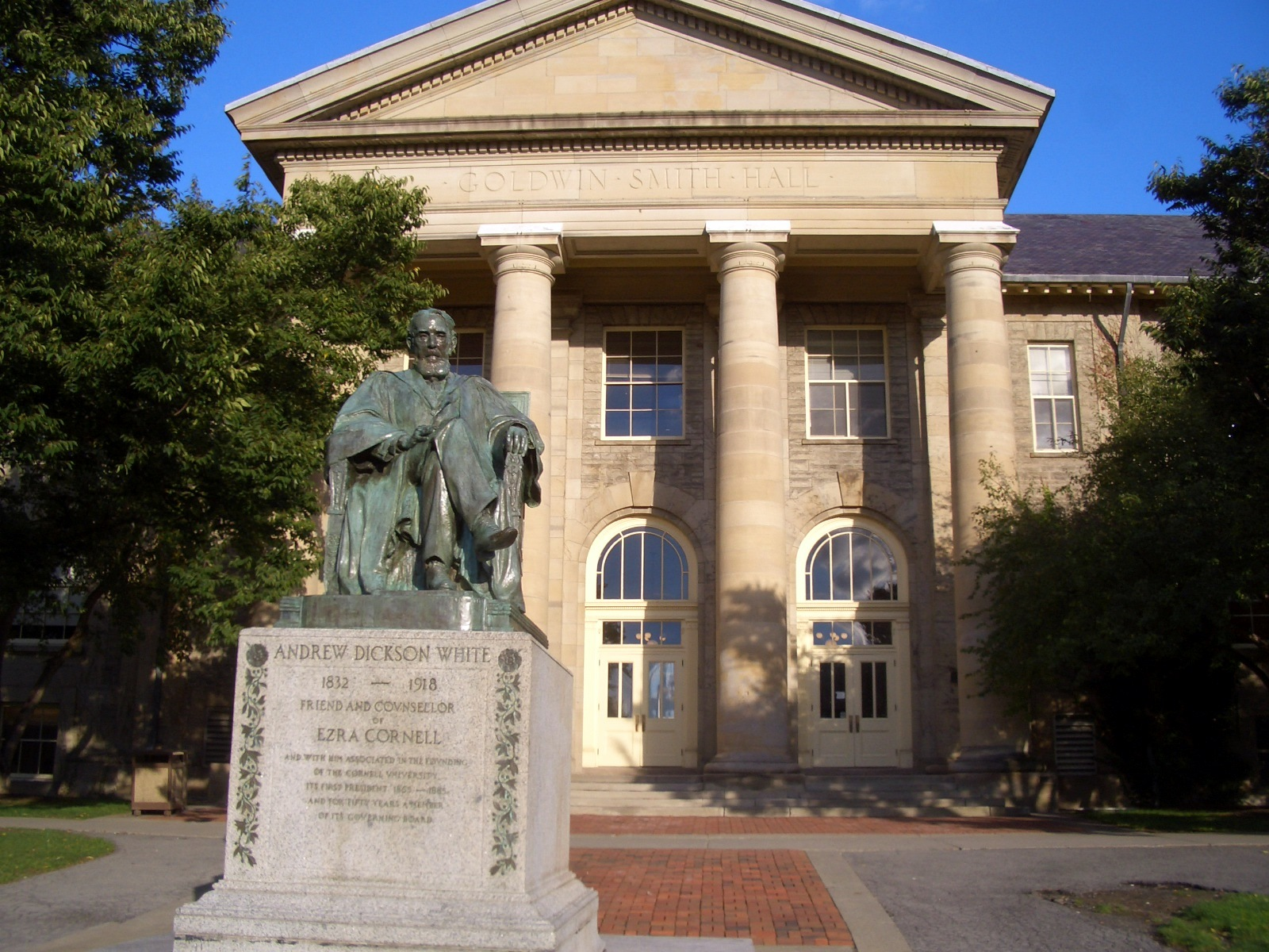 Goldwin-Smith Hall at Cornell University, in Ithaca, New York.